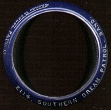 Rim of Edison Blue Amberol phonograph cylinder, early 1910s